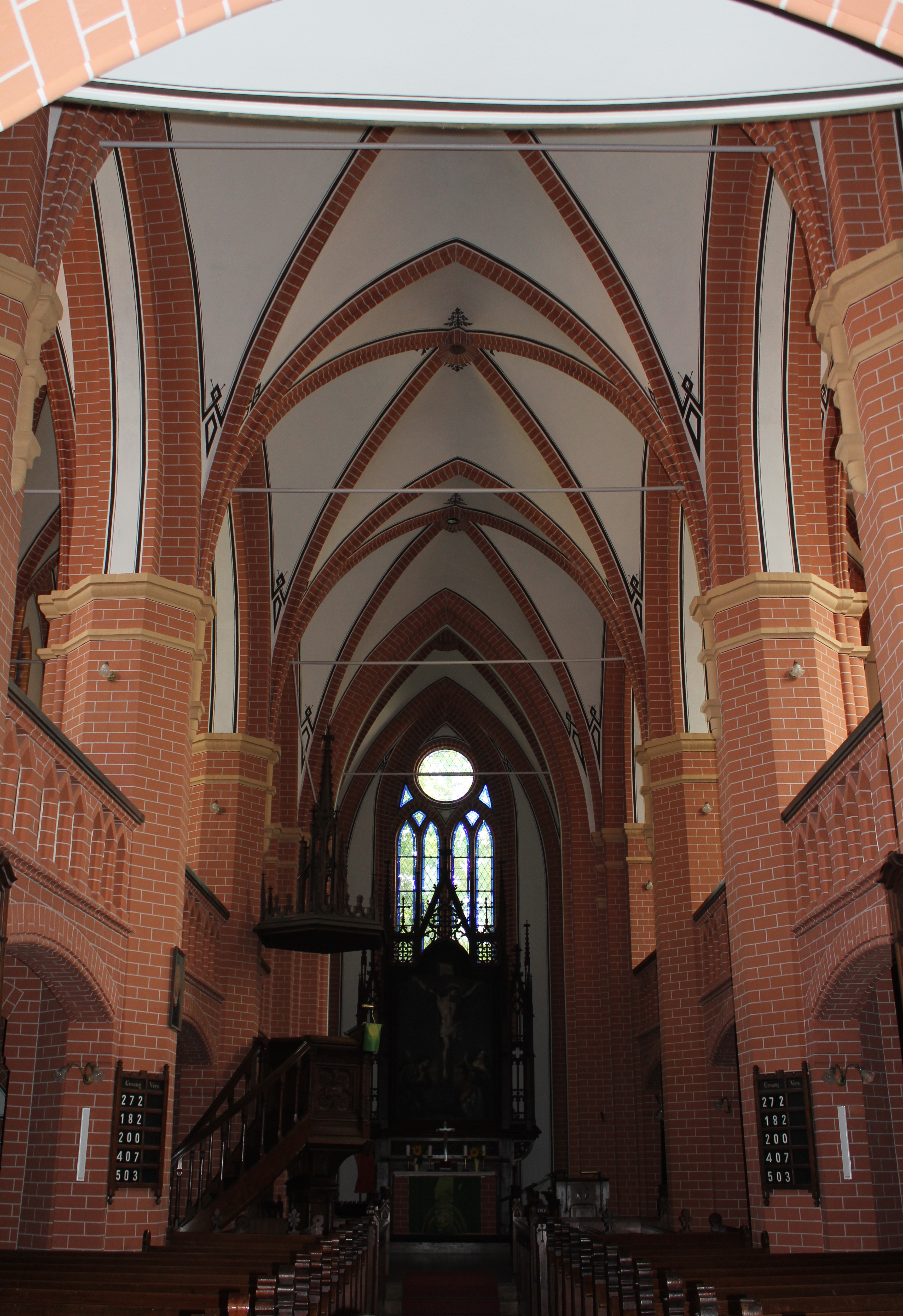 The nave of the church of Penzlin